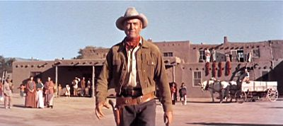 Cropped screenshot of James Stewart from the trailer for the film The Man from Laramie (1955).